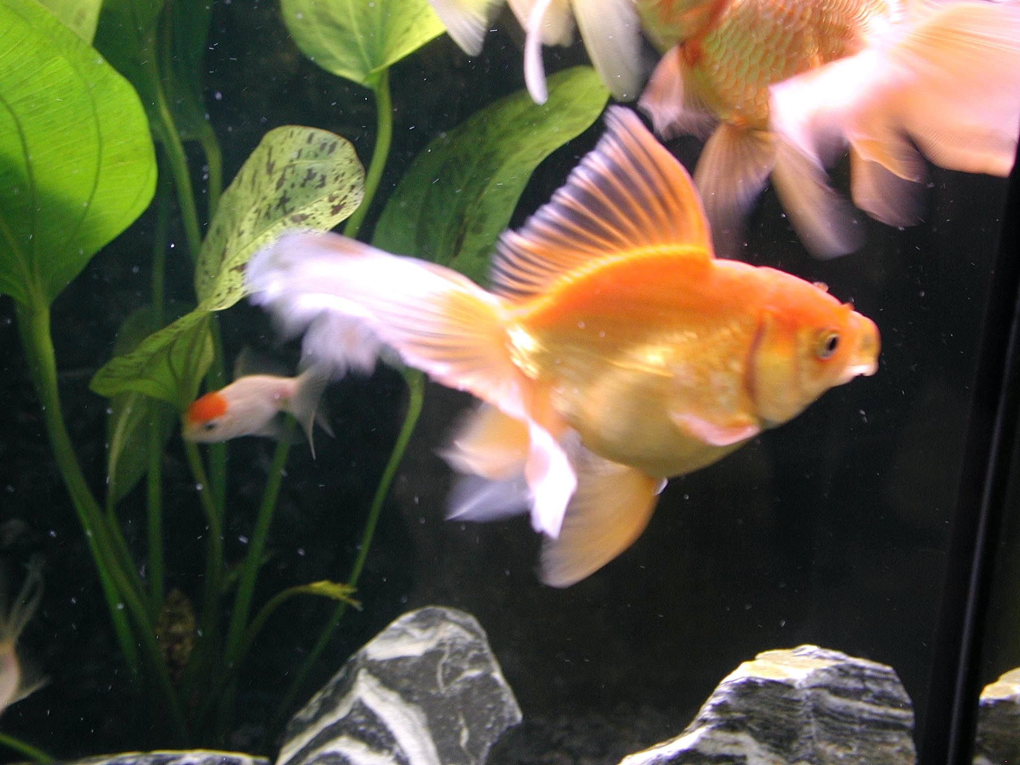 Image title: Aquarium fish gold fish Image from Public domain images website